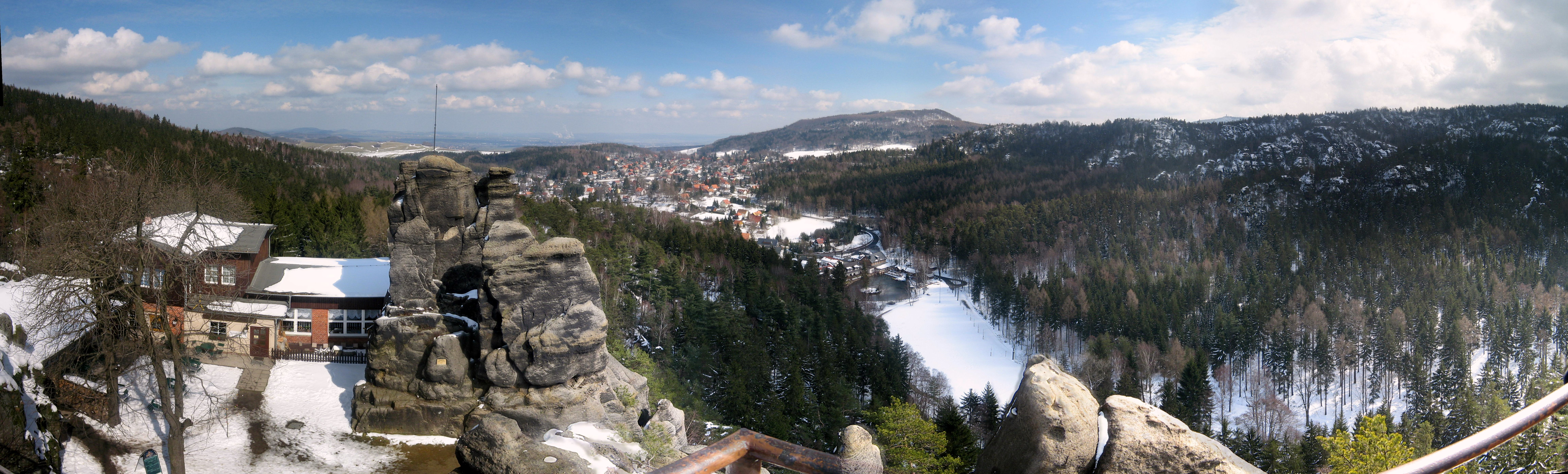 view from the mountain Nonnenfelsen in Lusatian Mountains